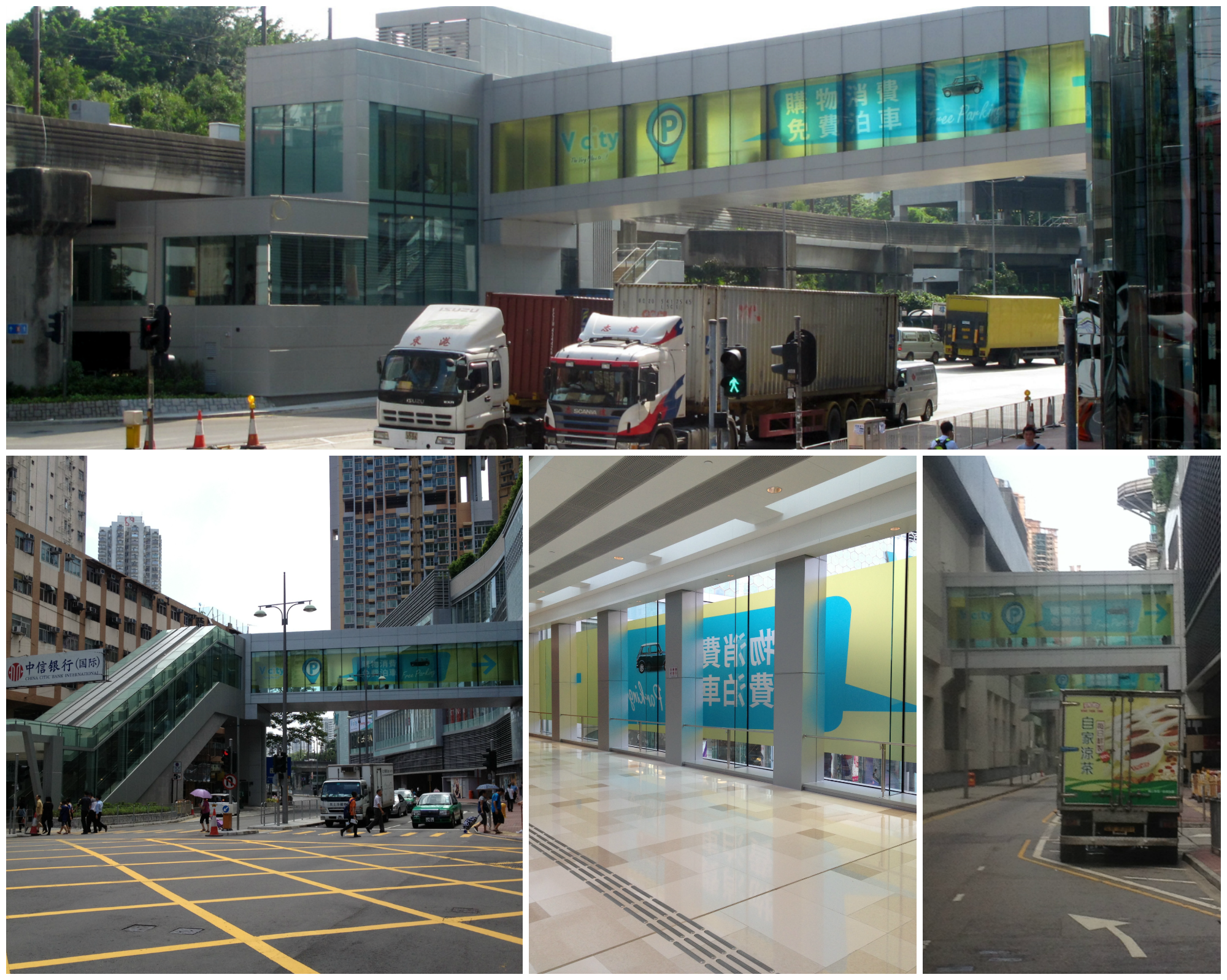 V City illegal poster in bridge